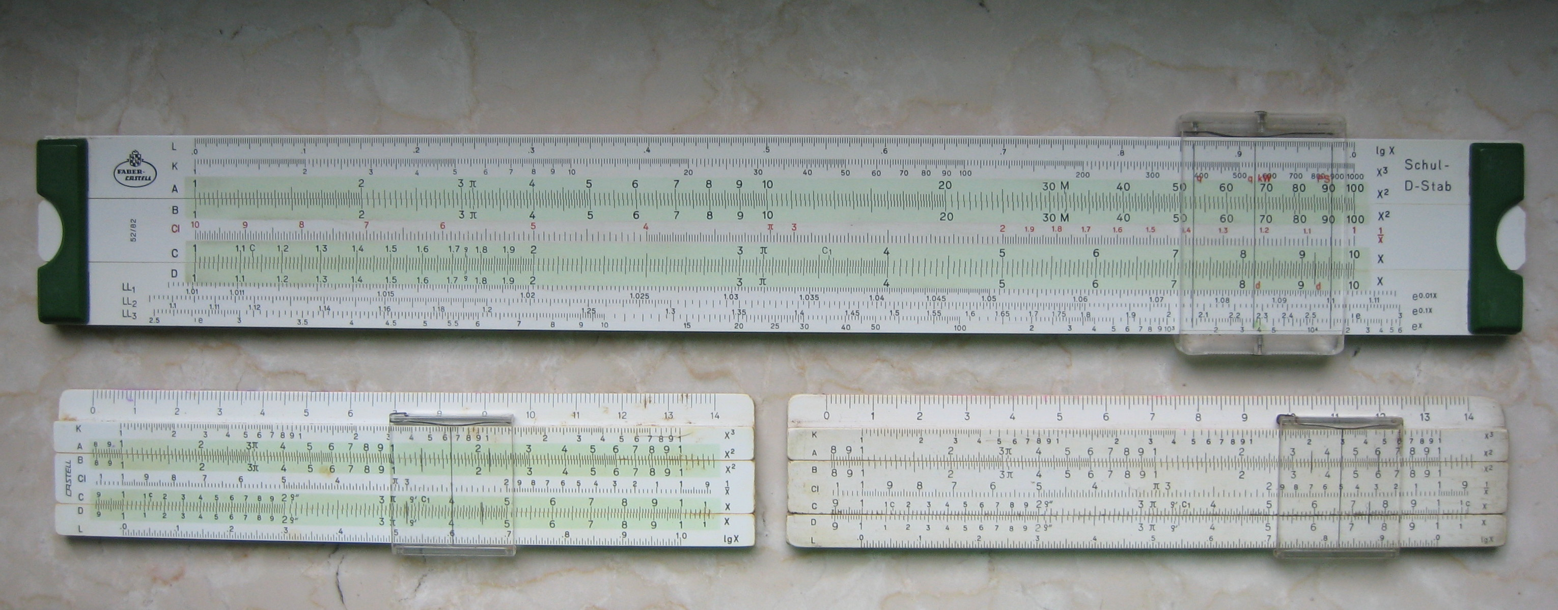 Slide rule Faber-Castell - 33,5 cm